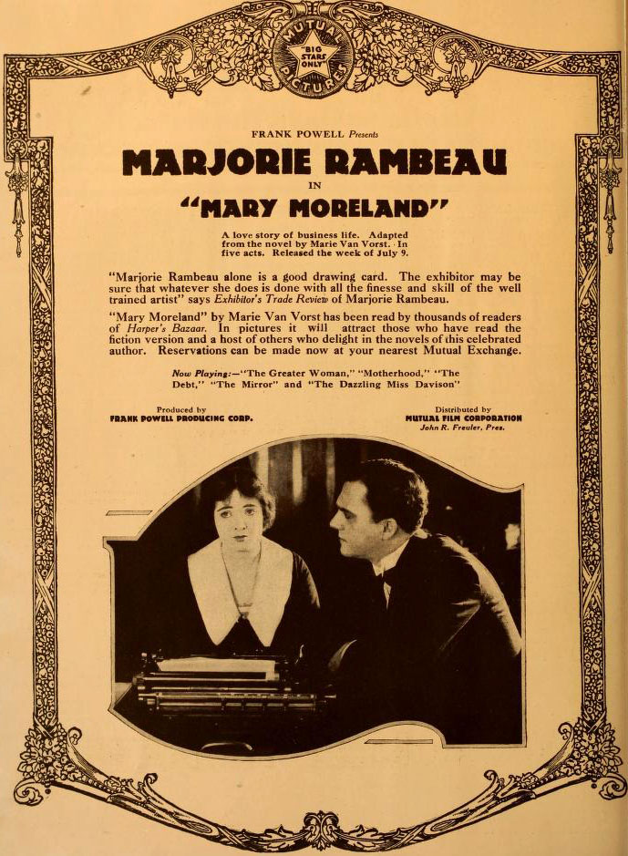 Advertisement in Moving Picture World, Jul 1917